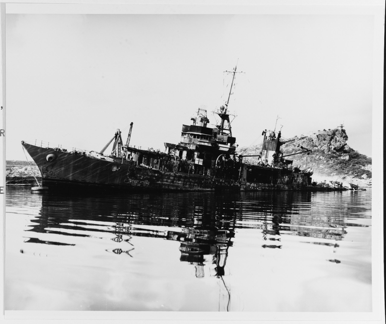 USS Erie (PG-50) view taken 2 December 1942, at Willemstadt, in Macola Bay, near Curacao, West Indies, where she had been towed; having been torpedoed on 12 November and been abandoned. She eventually sank on 5 December. Note extensive burn/fire damage; guns have been removed (except for the 1/1" mount near the bridge).